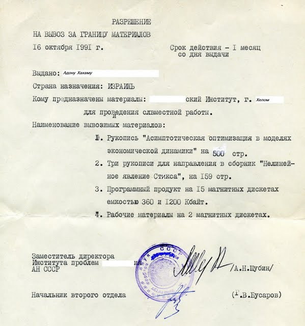 USSR censorship permit for export for one's papers